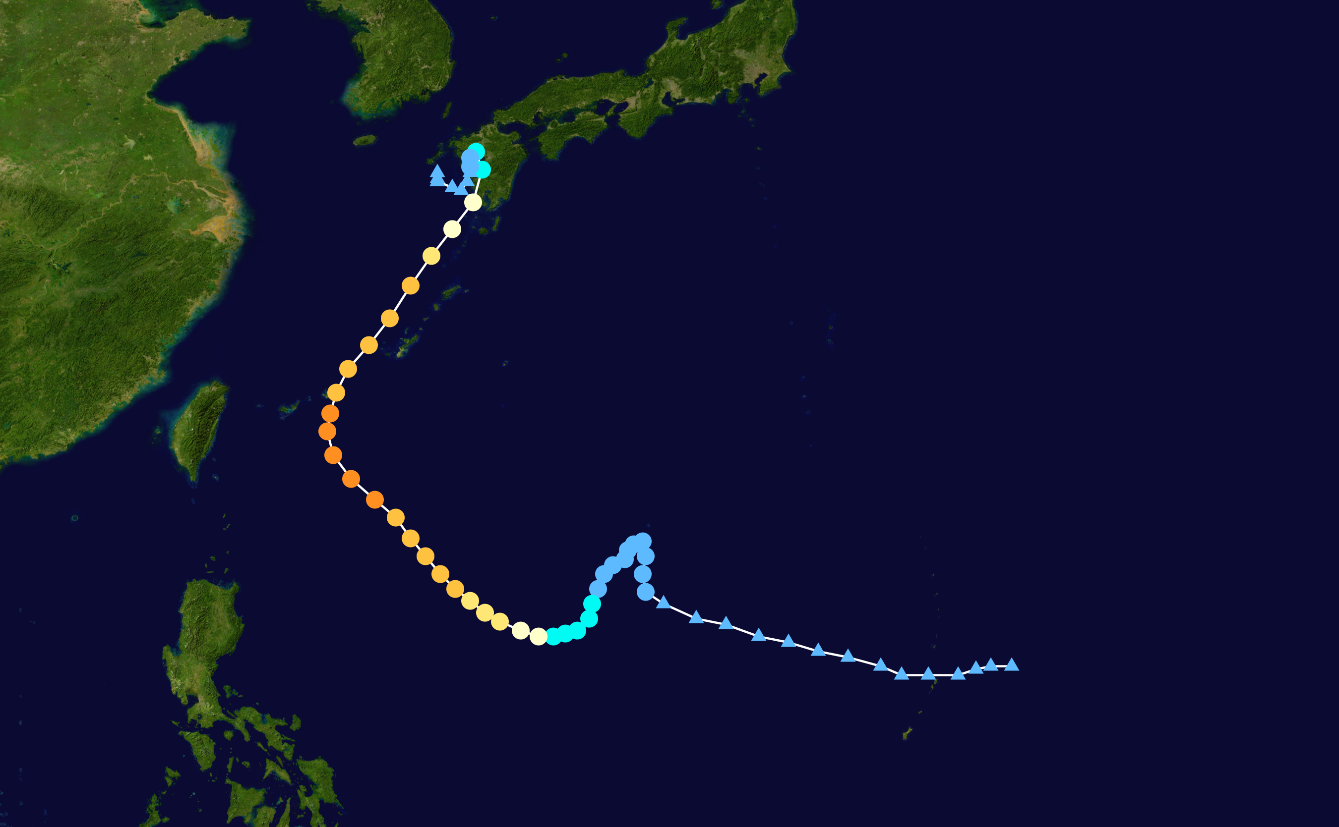 Track map of Typhoon Della of the 1968 Pacific typhoon season. The points show the location of the storm at 6-hour intervals. The colour represents the storm's maximum sustained wind speeds as classified in the Saffir–Simpson hurricane wind scale (see below), and the shape of the data points represent the nature of the storm, according to the legend below. Saffir–Simpson hurricane wind scale Tropical depression≤38 mph≤62 km/h Category 3111–129 mph178–208 km/h Tropical storm39–73 mph63–118 km/h Category 4130–156 mph209–251 km/h Category 174–95 mph119–153 km/h Category 5≥157 mph≥252 km/h Category 296–110 mph154–177 km/h Unknown Storm typeTropical cycloneSubtropical cycloneExtratropical cyclone / Remnant low / Tropical disturbance